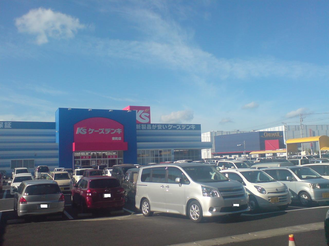 Shopping mall Palna in Inashiki City, Ibaraki Prefecture, Japan